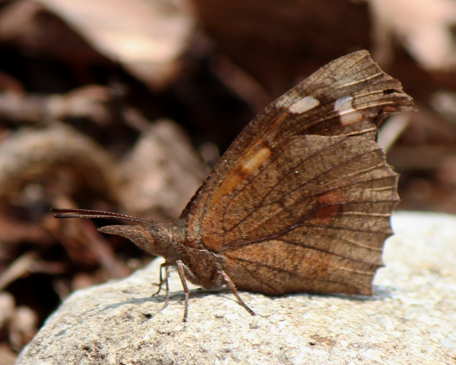 Libythea lepita